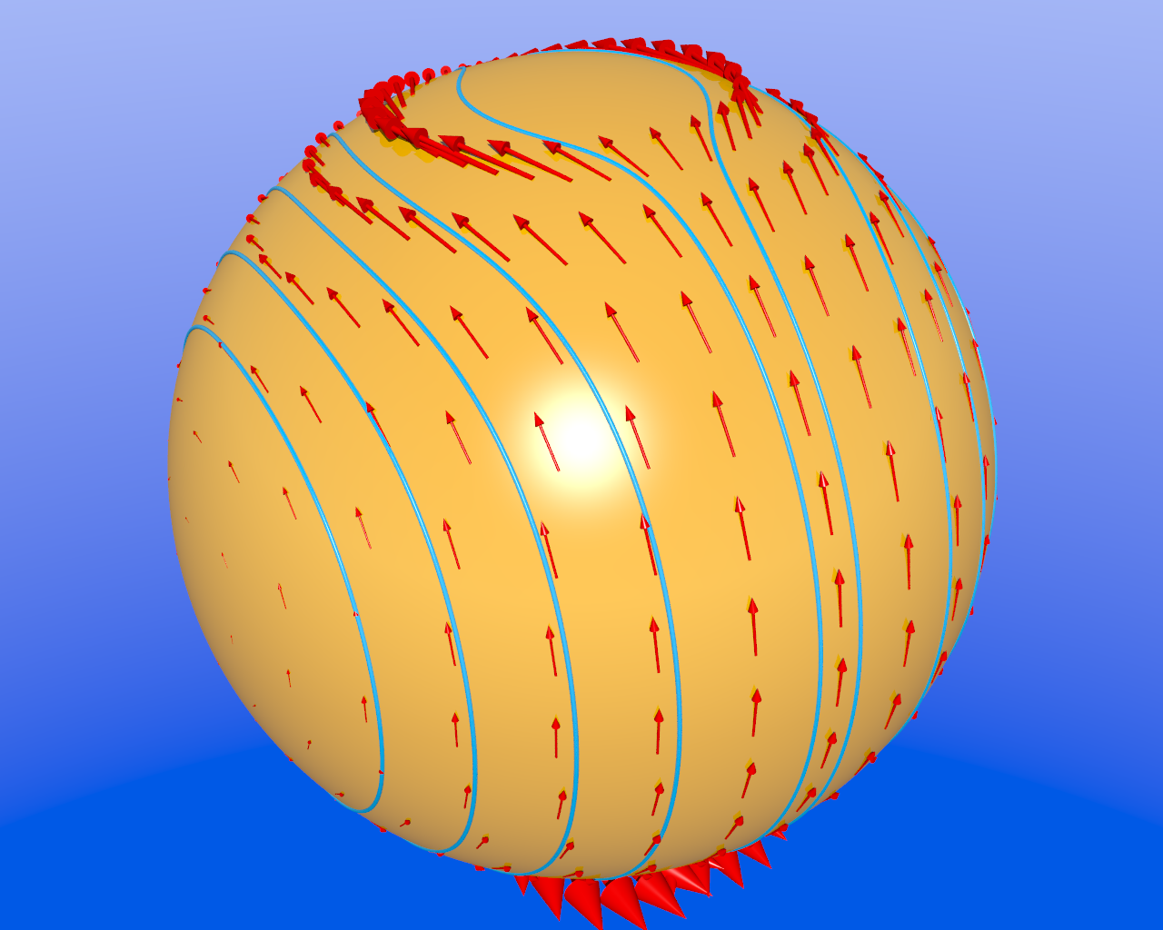 A Killing vector field K = sin(phi)*e_theta + cot(theta)*cos(phi)*e_phi and its integral curves of the S2 (minus the poles) with induced metric. Created with POVRAY.